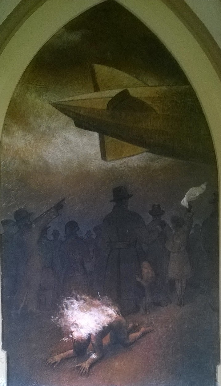 Painting "Wegschauen" (Looking away) by Wolfgang Götzinger on the pillar way next to the church Maria Himmelfahrt, in the arcades of the park